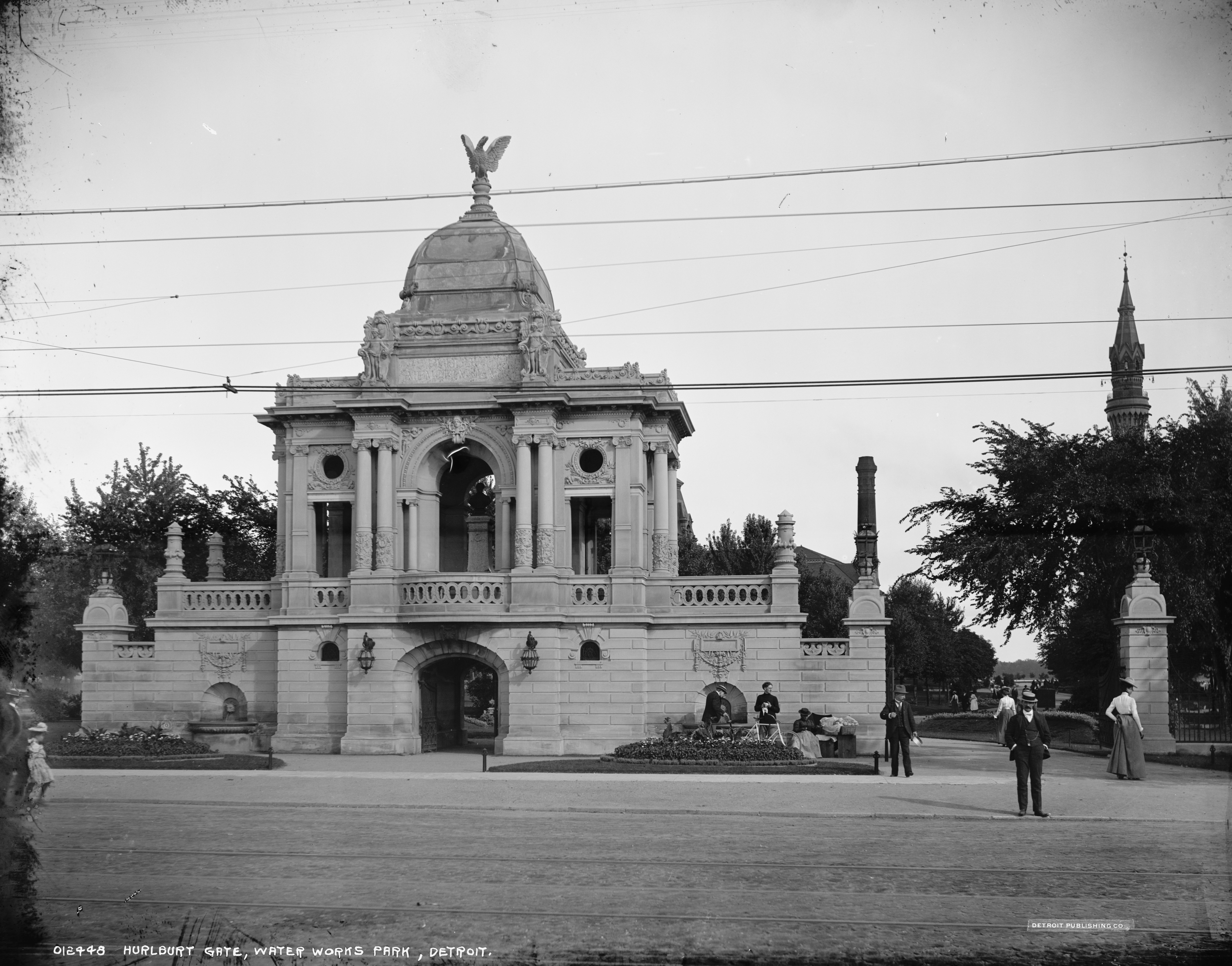 Hurlbut Memorial Gate, Waterworks Park, Dertoit MI c 1895